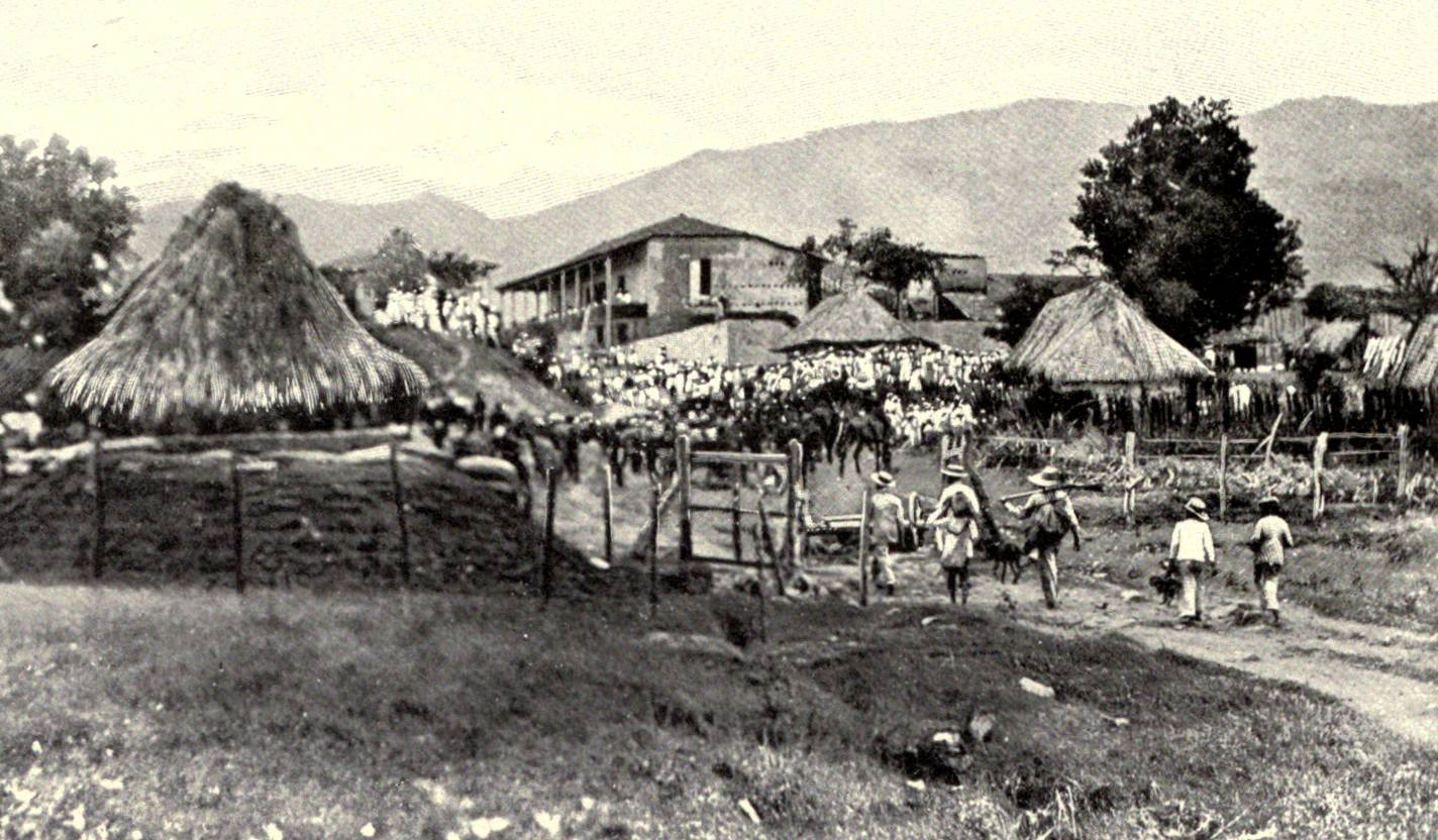 Spanish earthworks and trenches at El Caney, in 1898 — part of the Spanish-American War in colonial Cuba. Site located in present day Santiago de Cuba Province. From p. 334 of Harper's Pictorial History of the War with Spain, Vol. II, published by Harper and Brothers in 1899.